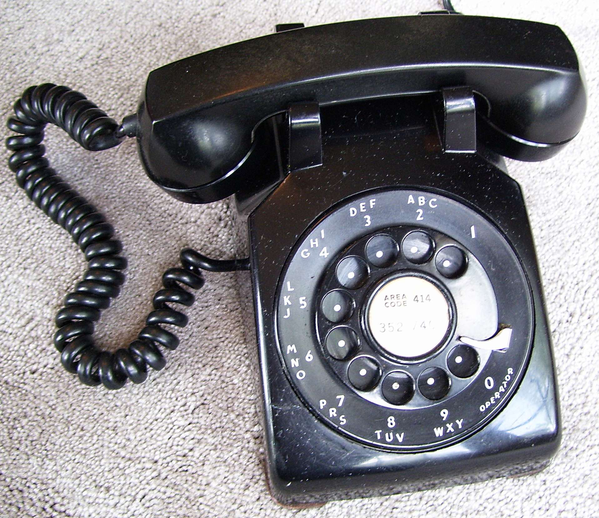 A 1951 Model 500 telephone from my own collection. Taken by ProhibitOnions, 2007.